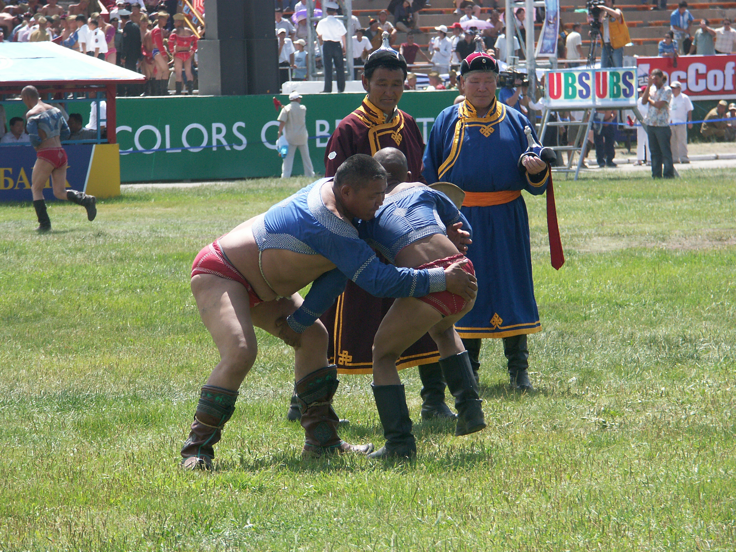 Wrestling in the 2005 Naadam festival.